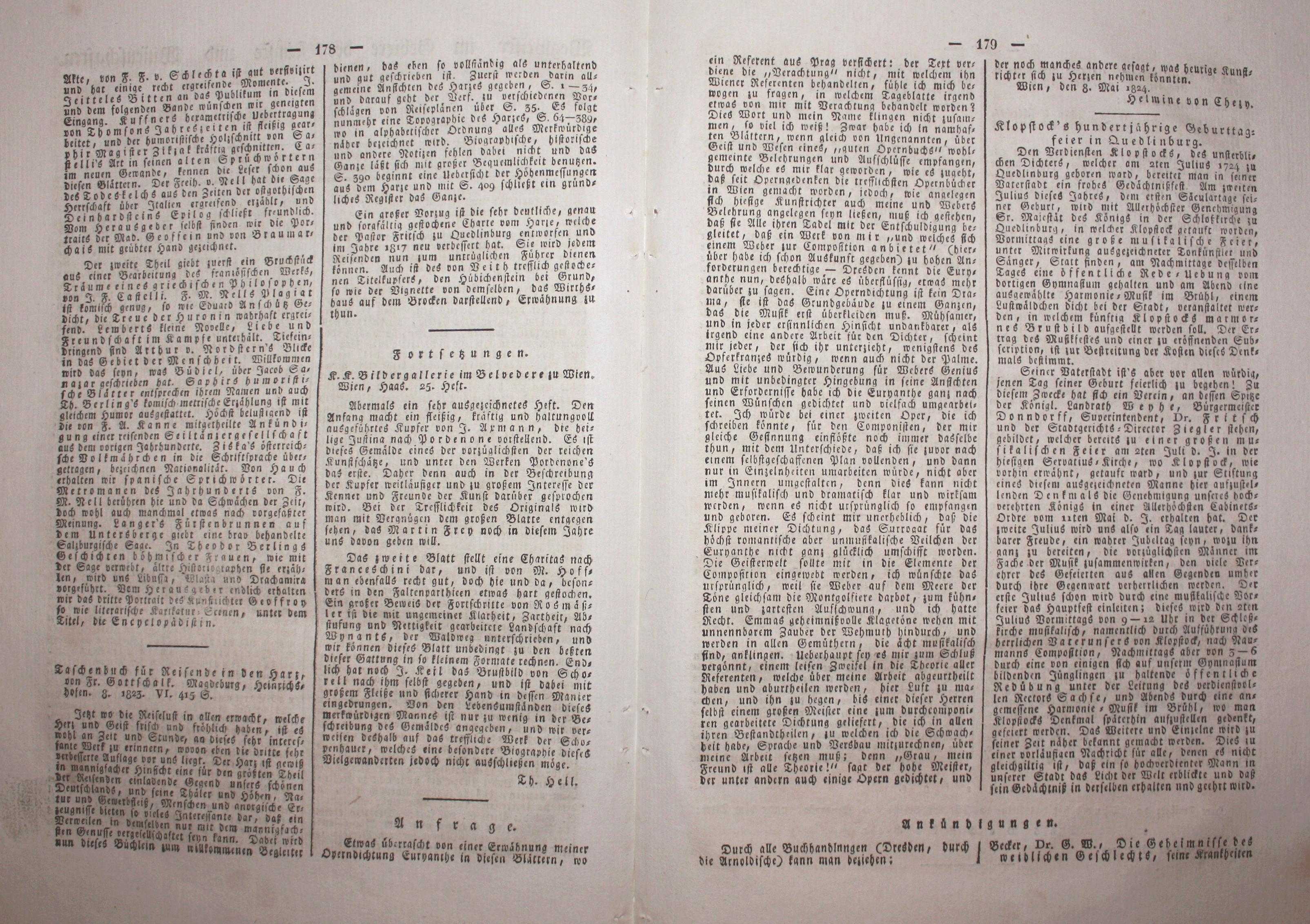 Helmina von Chézy's "inquiry" about critique of her libretto to Carl Maria von Weber's 1823 opera Euryanthe mentioned in a previous issue of the Dresdner Abend-Zeitung.